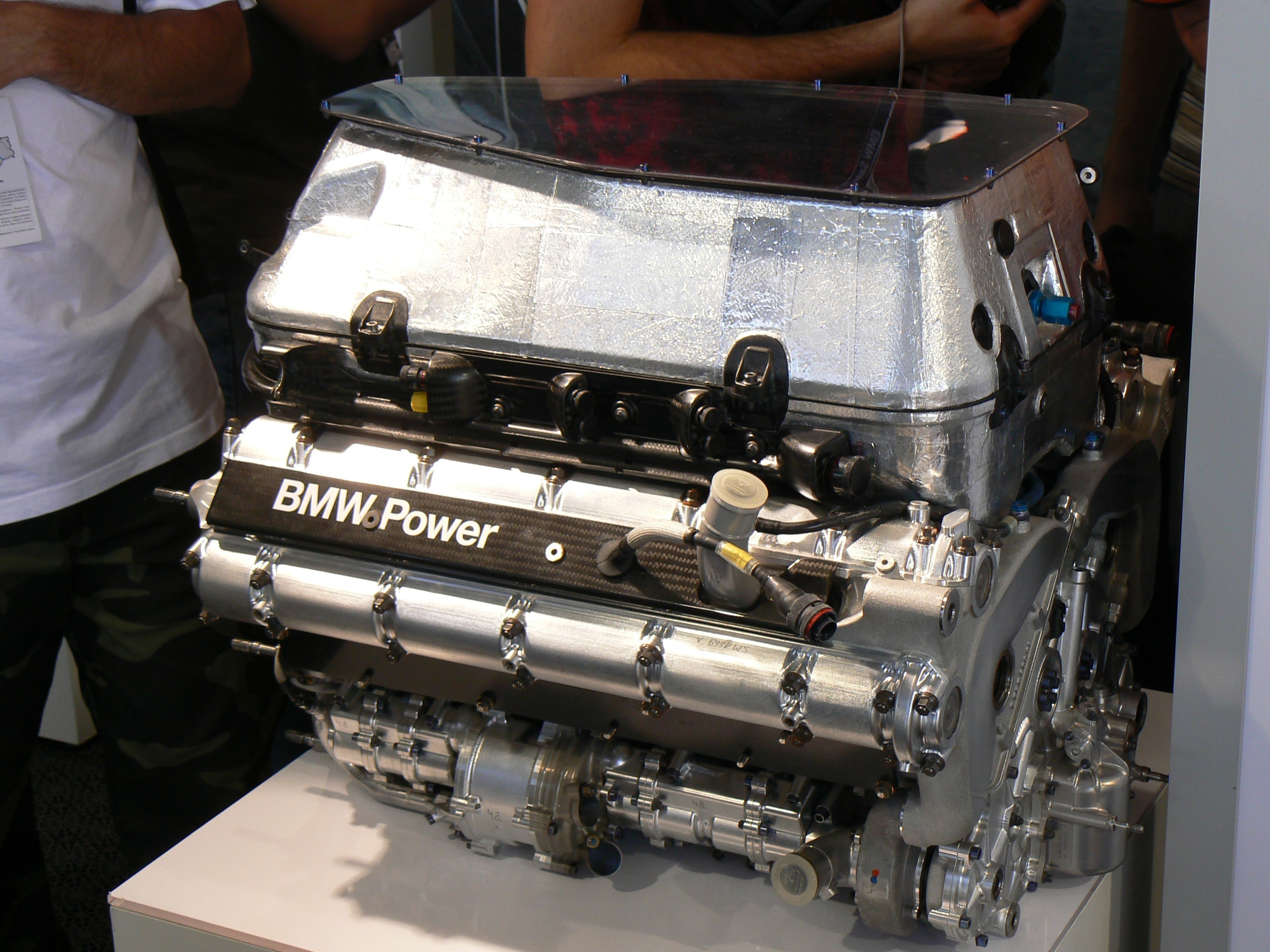 BMW V10 Engine, 2005. Used in Williams FW27. Photographed during BMW Sauber F1 Team Pit Lane Park in Warsaw, Poland.